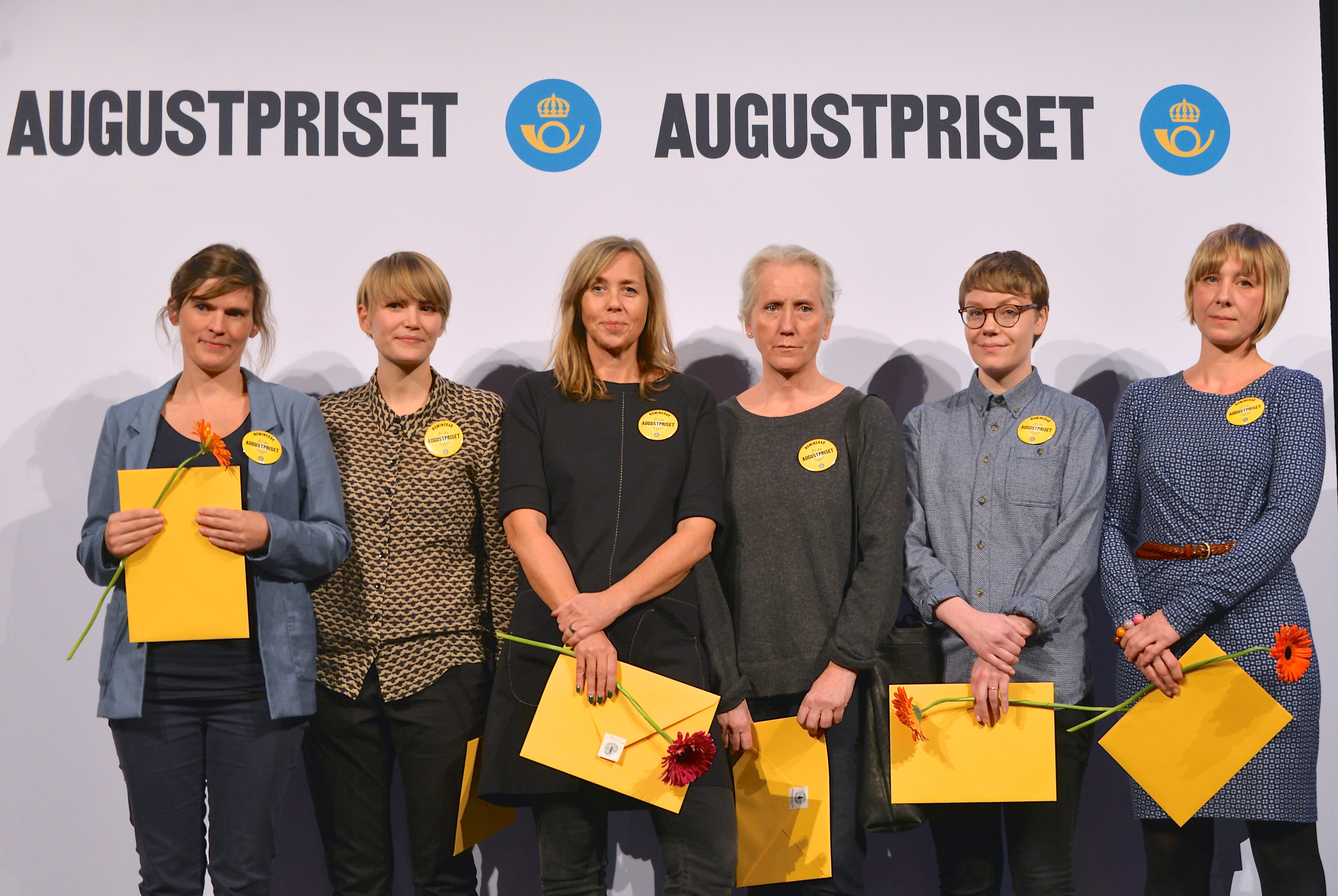 Nominated for the August Prize in the category of children's books in 2013. From left: Frida Nilsson, Ellen Karlsson, Sara Kadefors, Eva Lindström, Klara Persson and Lena Sjöberg.